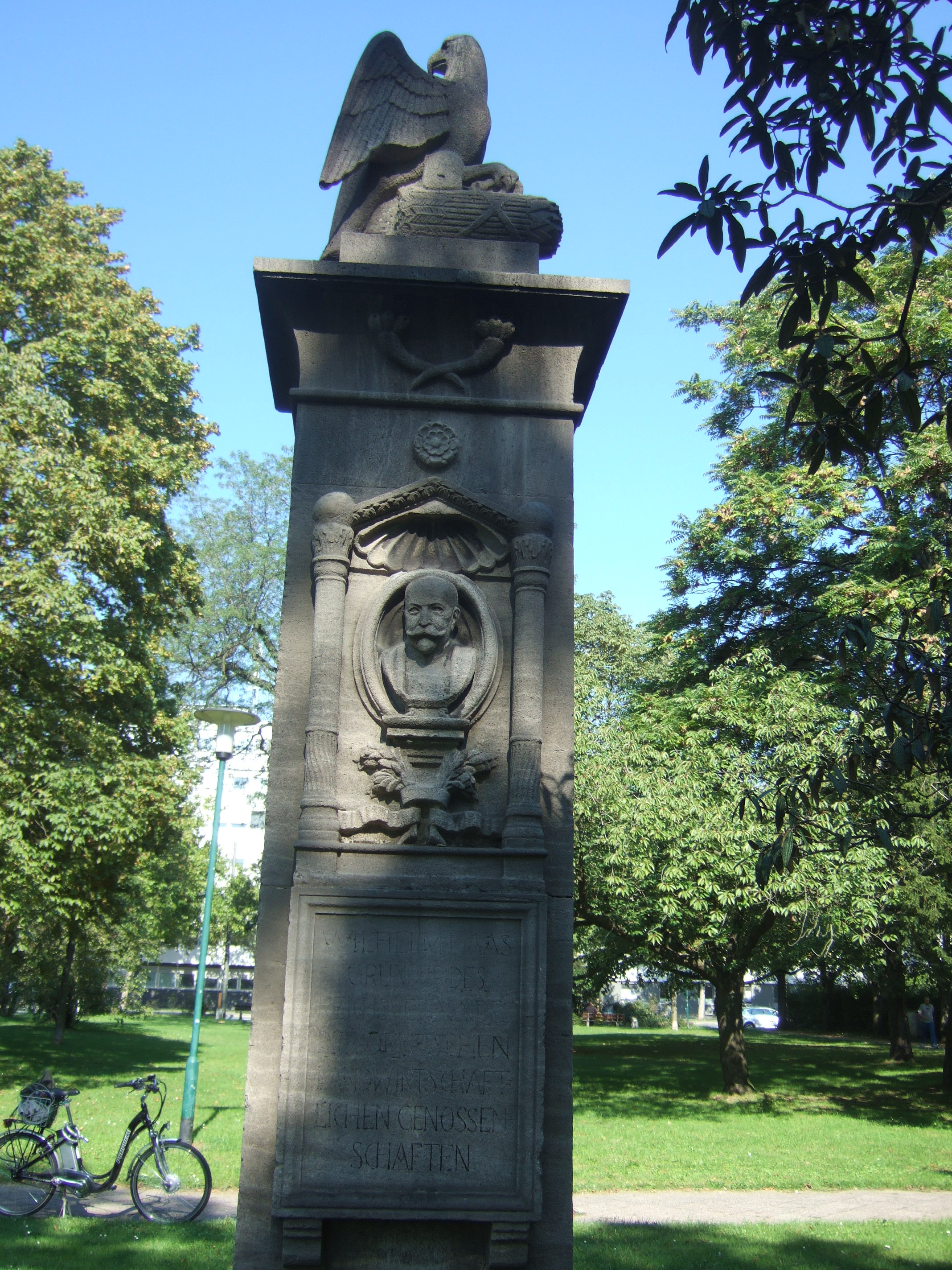 Monument for Wilhelm Haas in Darmstadt (Germany)